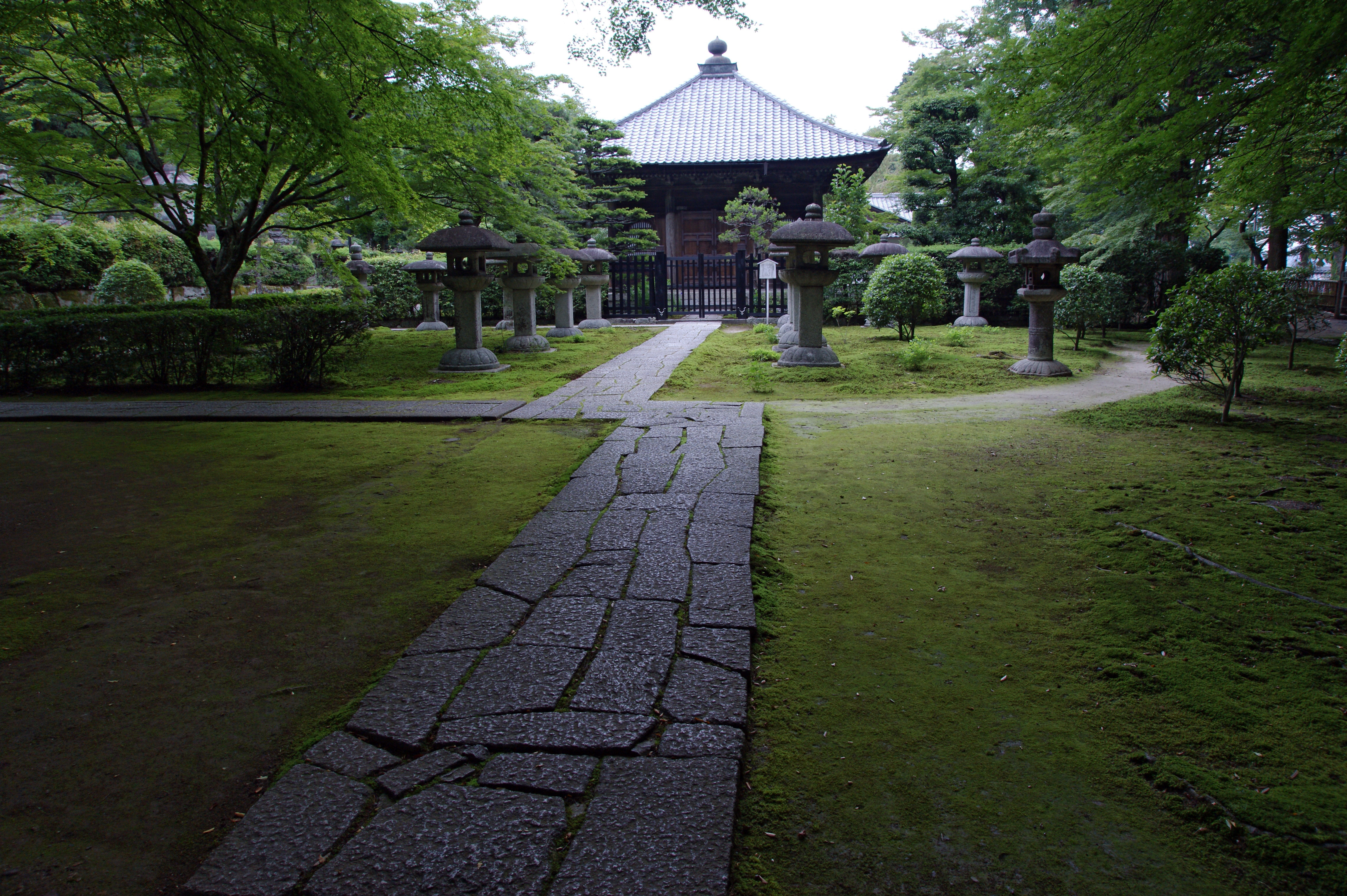 Jigendo in Sakamoto, Otsu, Shiga prefecture, Japan